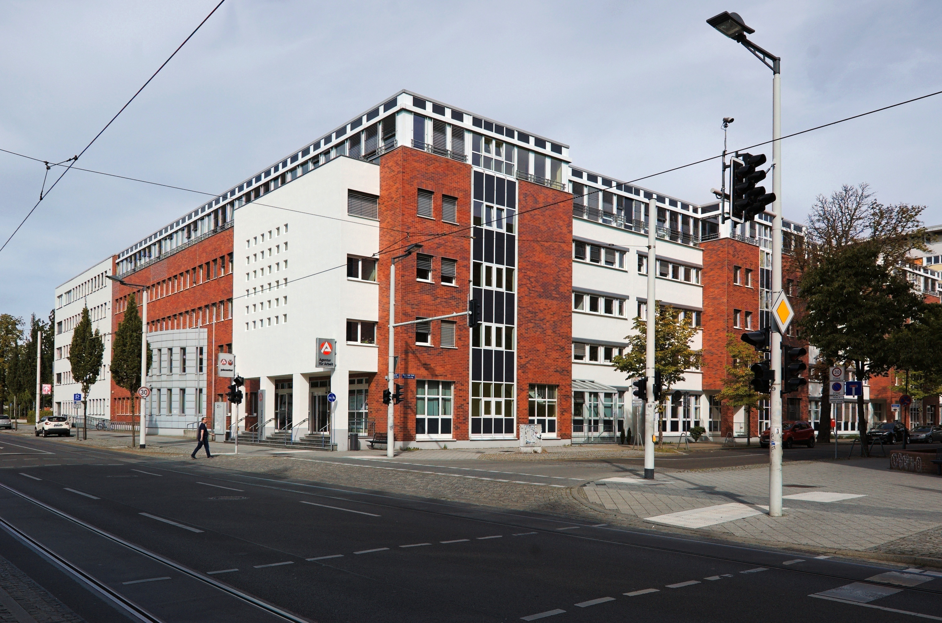 Agentur für Arbeit Cottbus, Bahnhofstraße 10 in Cottbus-Mitte.